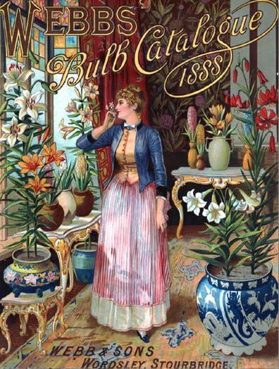 Cover of Webb & Sons Bulb Catalogue for 1888 195 x 255mm (7¾ x 10ins)